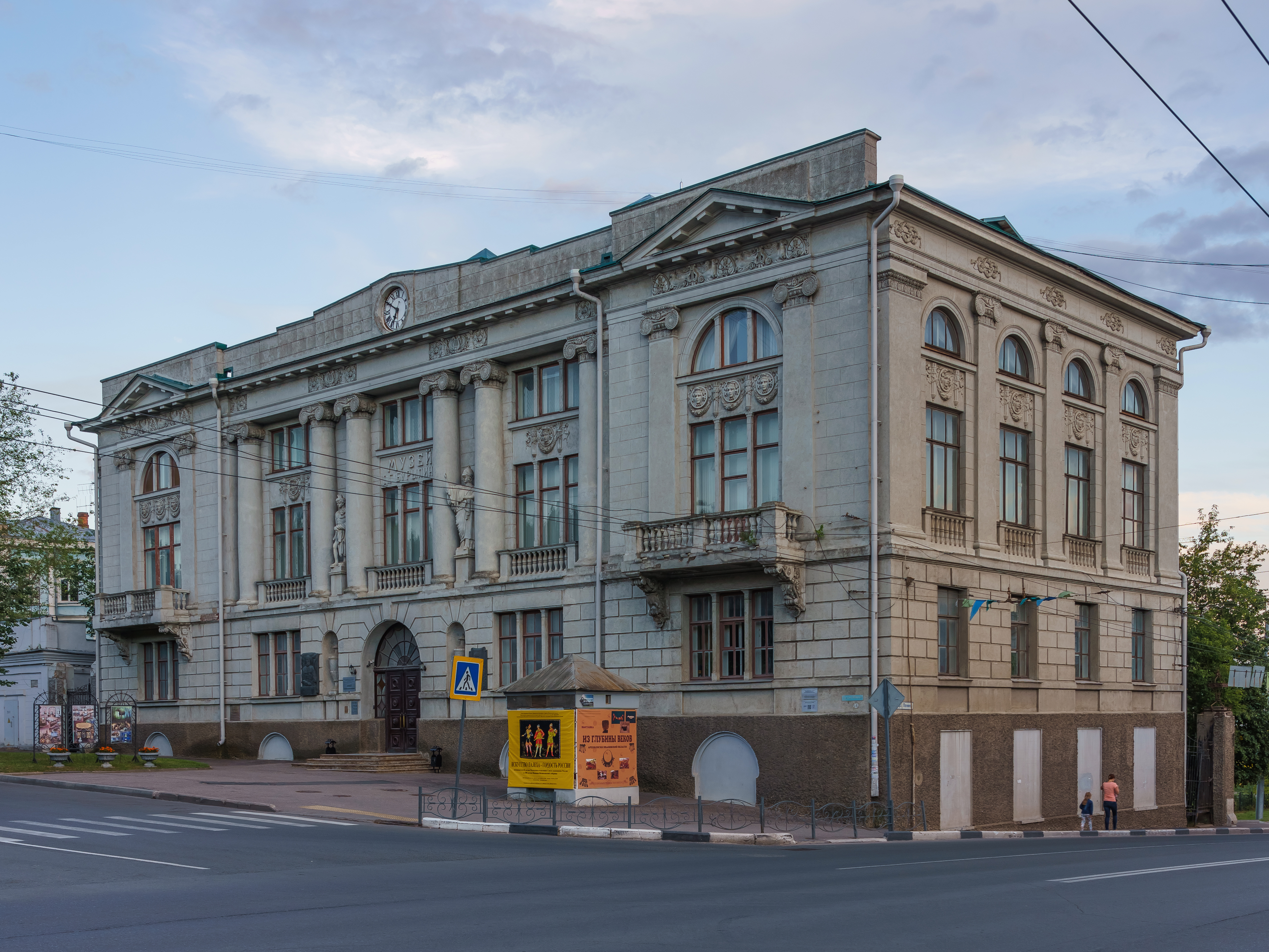 Museum of Industry and Art (Burylin Museum) in Ivanovo, Russia